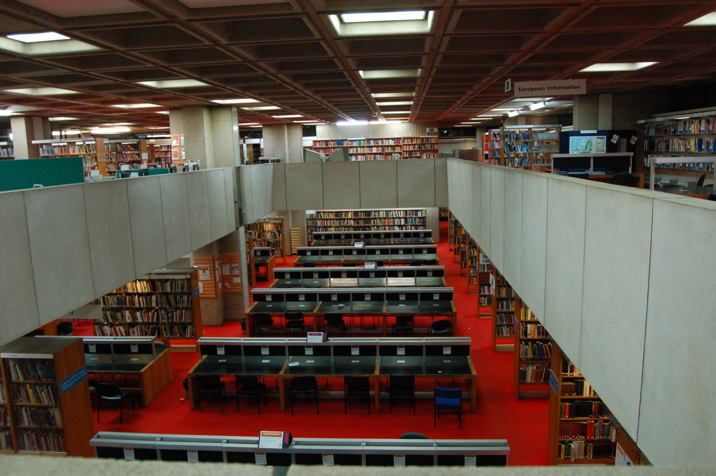 Photo taken in Birmingham Central Library, Paradise Forum, and the Shakespeare Room as part of @karenstrunks' 4amproject.